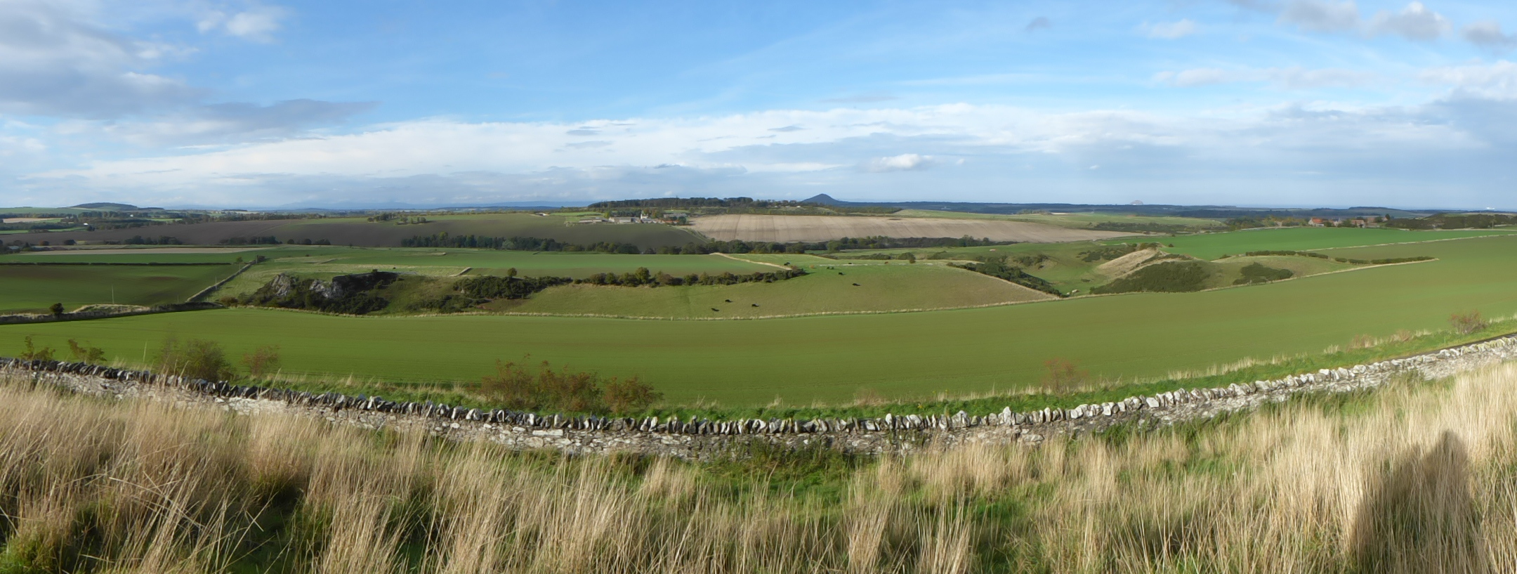 View northwards from the slope of Traprain Law (composite)